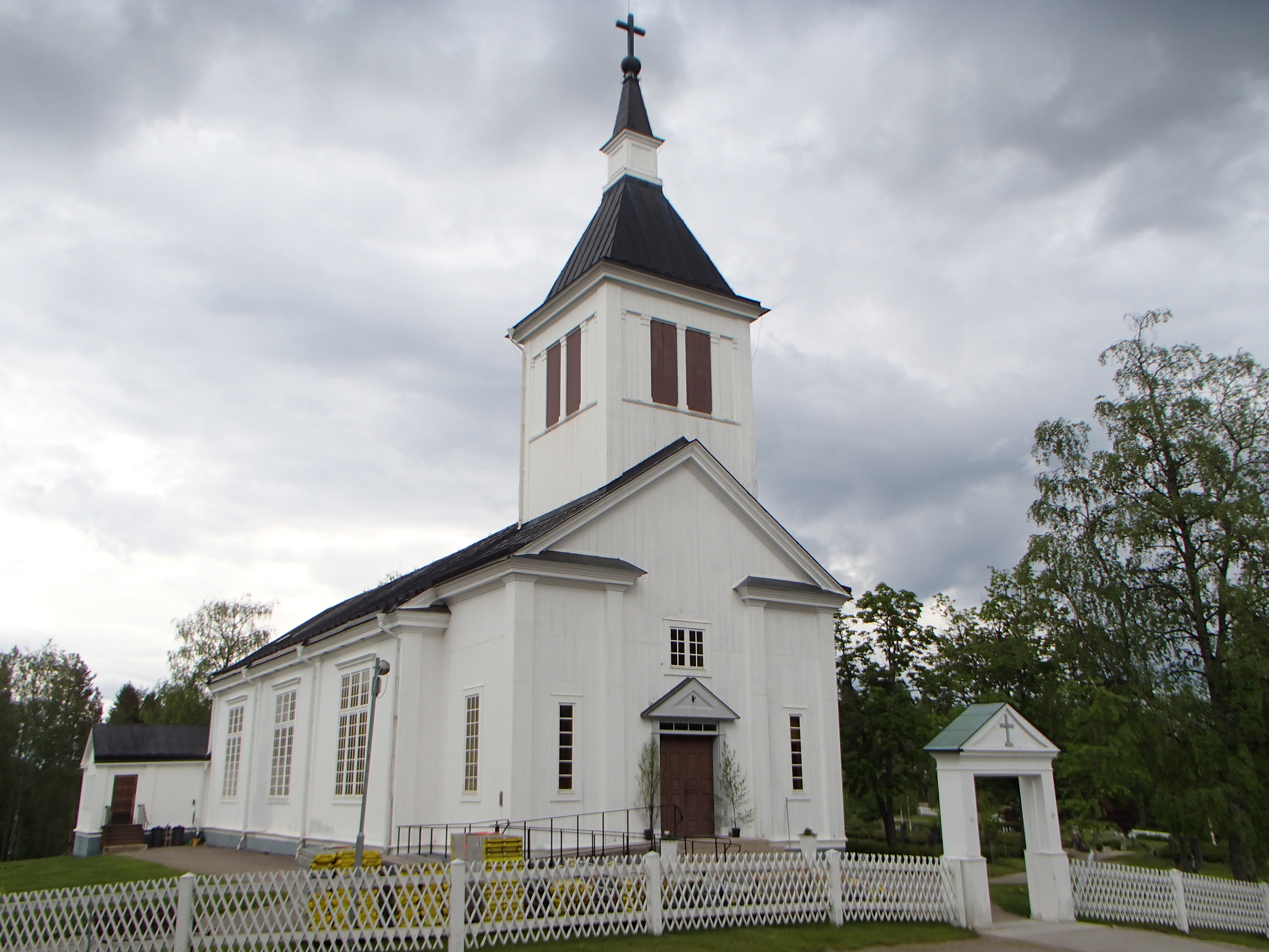 The church building of "Björna kyrka" at Björna in Örnsköldsvik Municipality